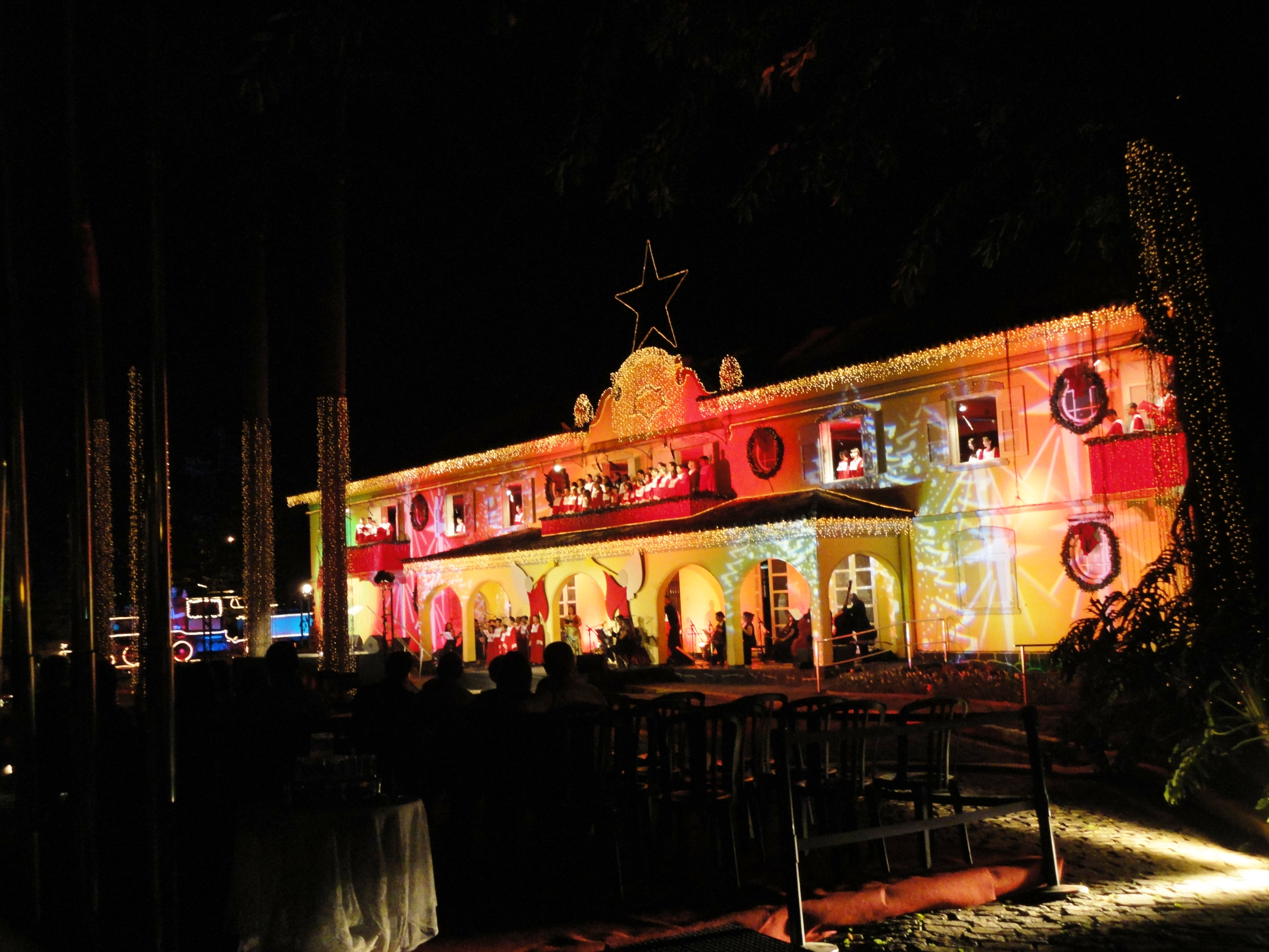 Christmas cantata of the ArcelorMittal Timóteo (now Aperam South America) in the Aperam Acesita foundation, in Timóteo, Minas Gerais, Brazil.